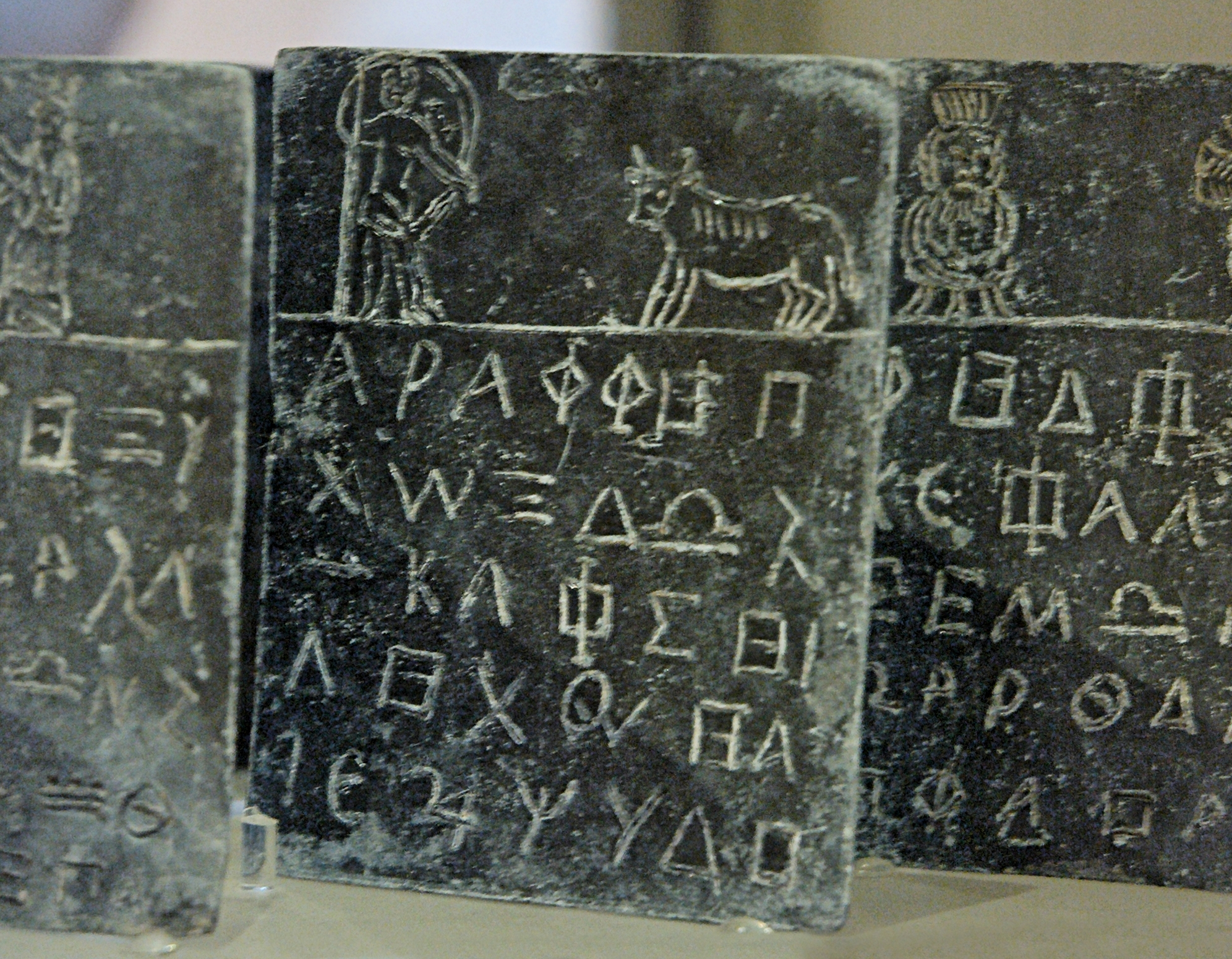 Magical book formed of seven pages enclosed by a cover with a veiled woman's head and a bearded man.